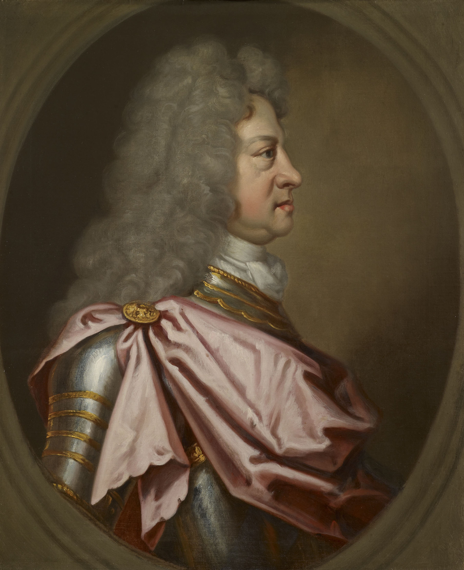 Portrait of George I of Great Britain